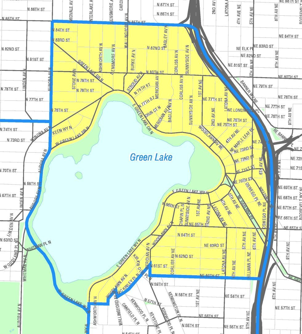 Map of Seattle's Green Lake neighborhood. Like the other maps from the Seattle City Clerk's Neighborhood Map Atlas, this is not an official map; in particular, borders are not official. Disclaimer: The Seattle Neighborhood Atlas, which the Seattle Clerk's Office has placed in the public domain (as confirmed by OTRS ticket 2008033110016048) contains some general commentary on the maps, "About Maps", which should typically be linked as an accompaniment to these maps to (in their words) "minimize the numerous 'complaints' or comments by users who feel it necessary to point out how the Clerk's Office is 'wrong' about a certain section of town." In particular, "About Maps" says that the atlas "is designed for subject indexing of legislation, photographs, and other documents in the City Clerk's Office and Seattle Municipal Archives" and "is not designed or intended as an 'official' City of Seattle neighborhood map. There are many different ideas of what neighborhood districts exist in Seattle and what their names are…"